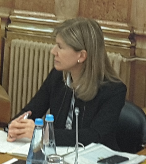 Regina Bastos, Portuguese Member of Parliament, in 2016